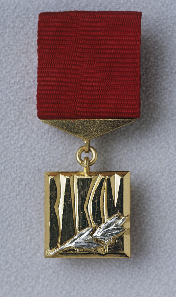 “Sign of winner of Lenin Komsomol prize”. The sign of the winner of Lenin Komsomol prize established in 1966.